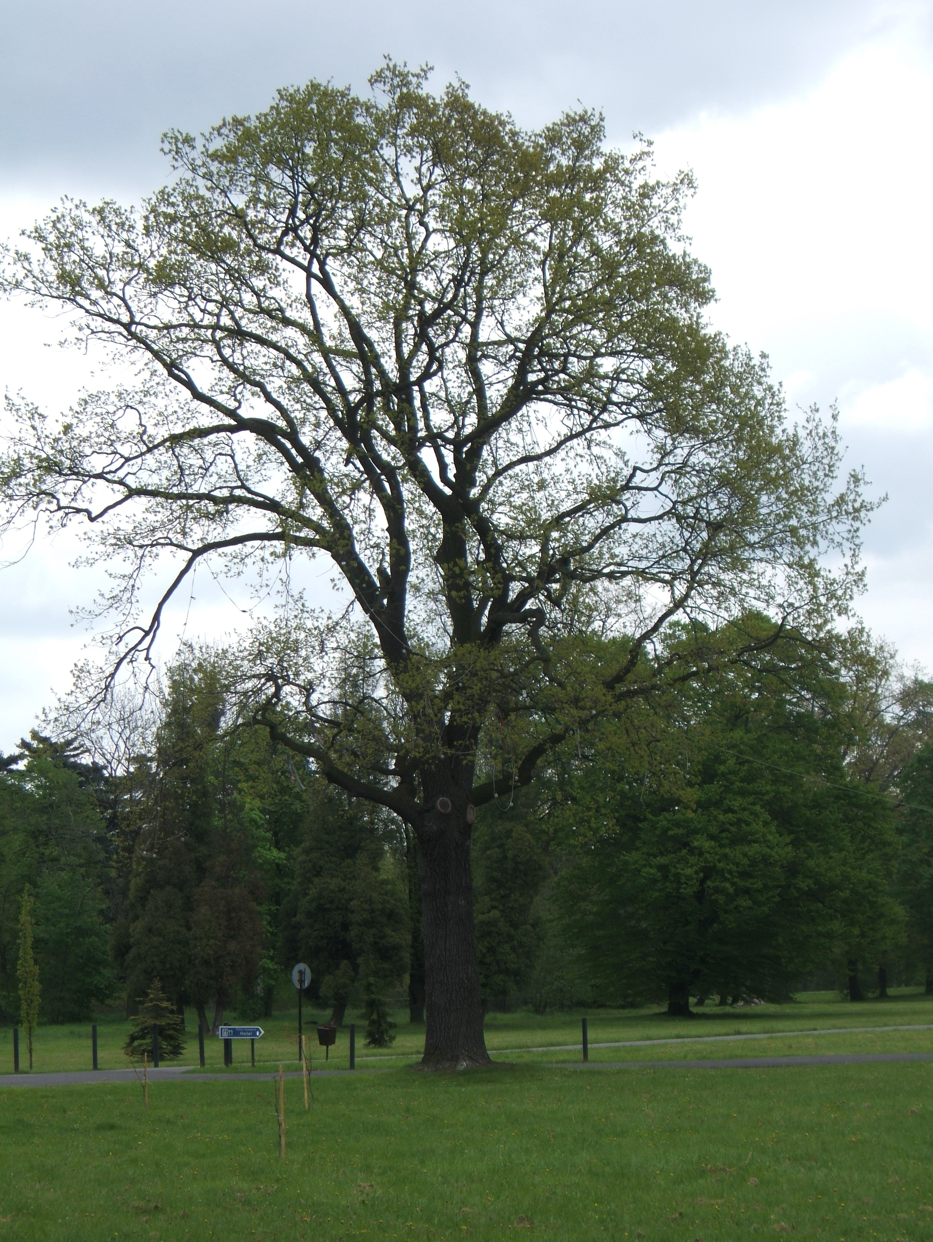 An old oak in the park of Świerklaniec